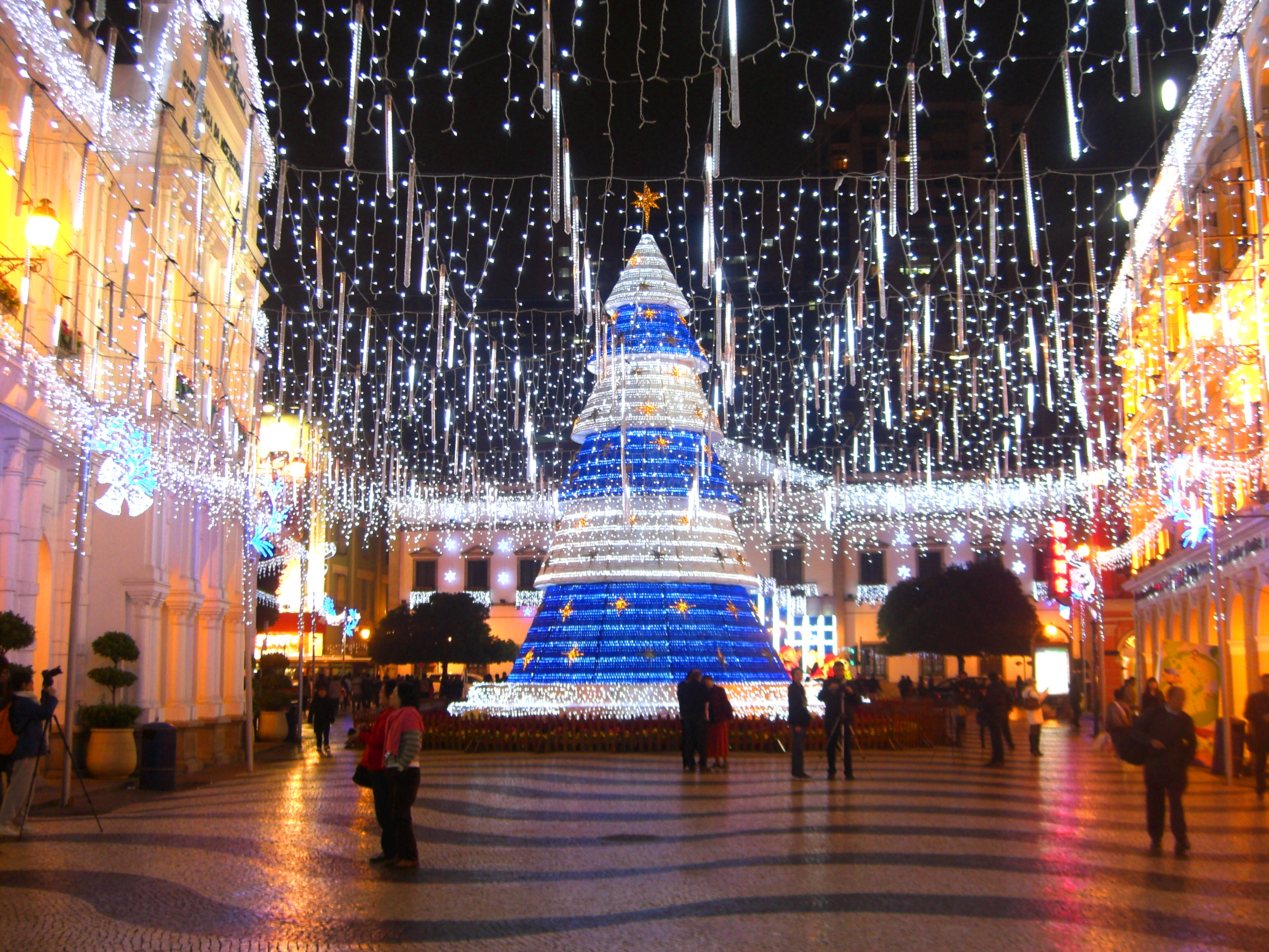 Christmas decorations at the Senado Square in Macau, China